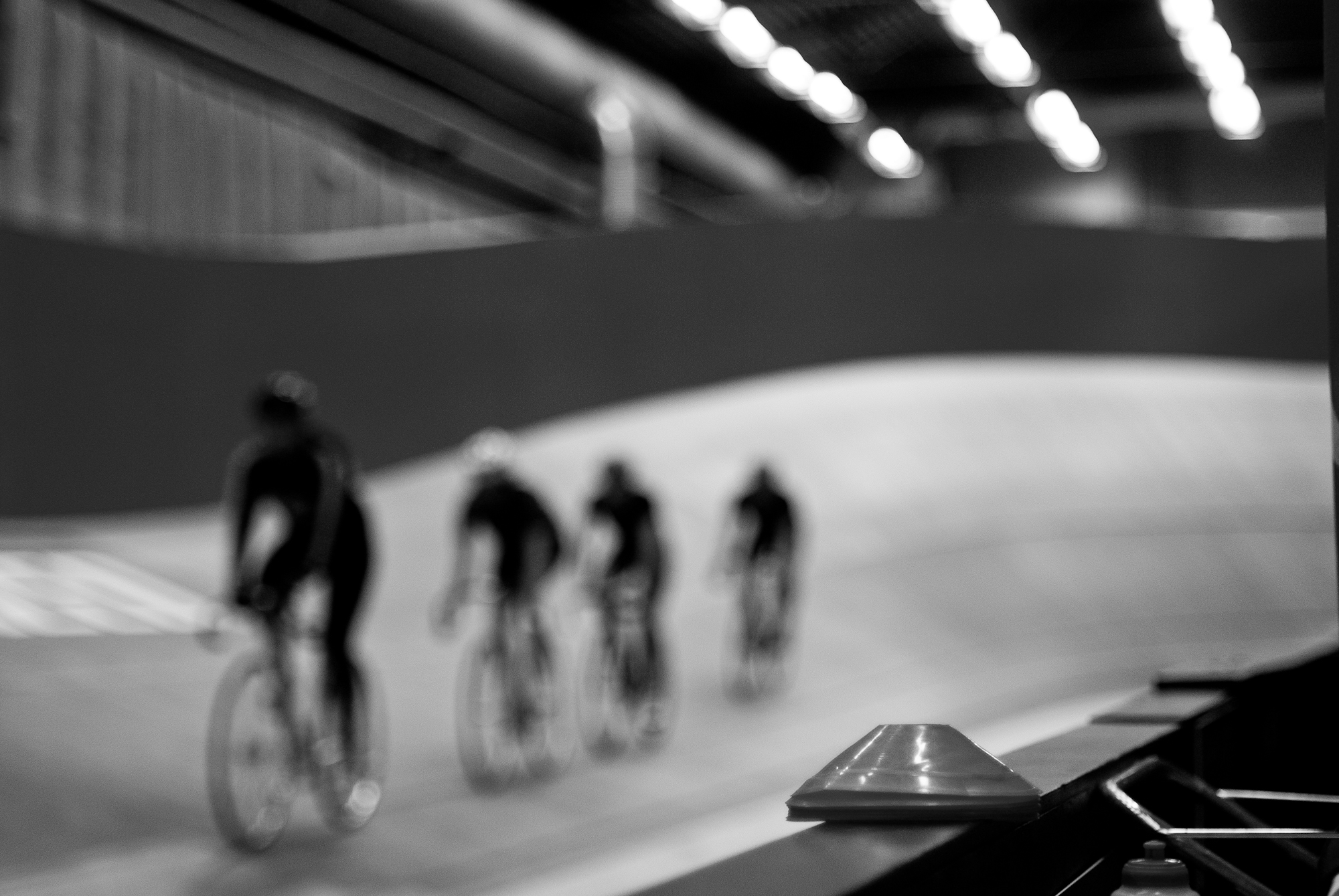 Velodrome in Falun, the only one in Sweden. Teamed up with Komet Club Roleur, 2012